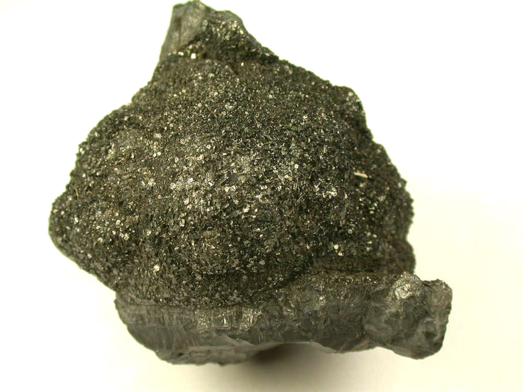 Pyrolusite, variety Polianite Locality: Katanga (Shaba), Democratic Republic of Congo (Zaïre) A 5.2 by 4.5 cms mass of small crystals with a label of "Kisenge Mn Mine, Western Shaba, Congo". JSS specimen and photo.